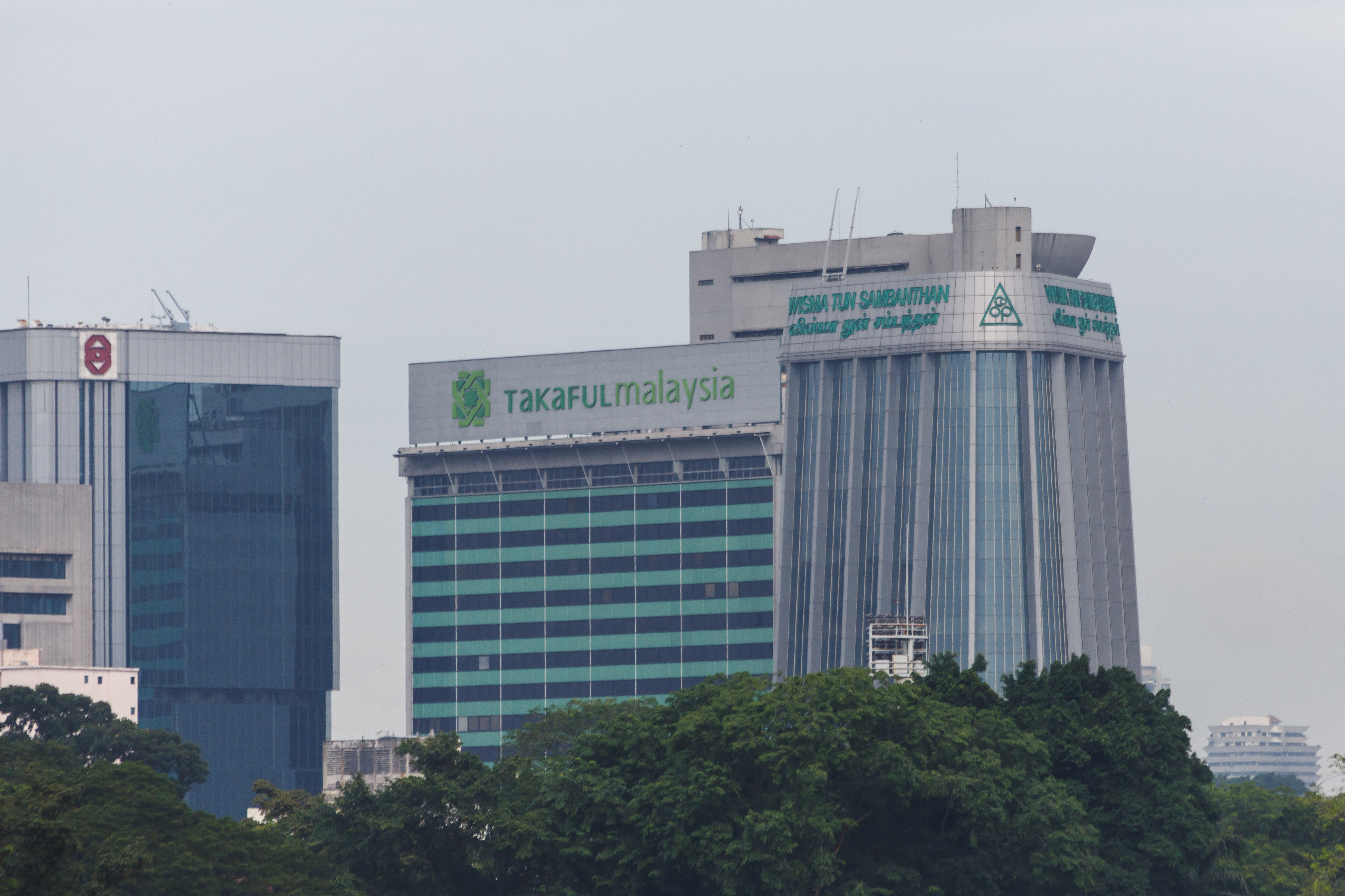 Kuala Lumpur, Malaysia: right side: Wisma Tun Sambanthan, a 27-storey office building built by the NLFCS (National Land Finance Cooperative Society). middle part: Dataran Kewangan Darul Takaful, housing Islamic Banking & Finance Institute Malaysia (IBFIM) and Malaysian Takaful Association MTA. left side: Public Bank Berhad Building, the former headquarters of Public Bank Berhad before the completion of the Ampang building